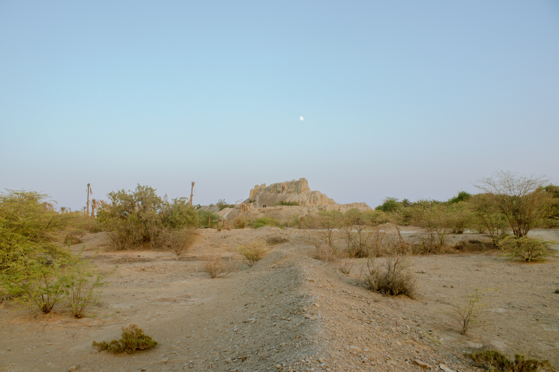 Kalatuk (Fort) c 1700 AD This is a photo of a monument in Pakistan identified as the BA-U-5